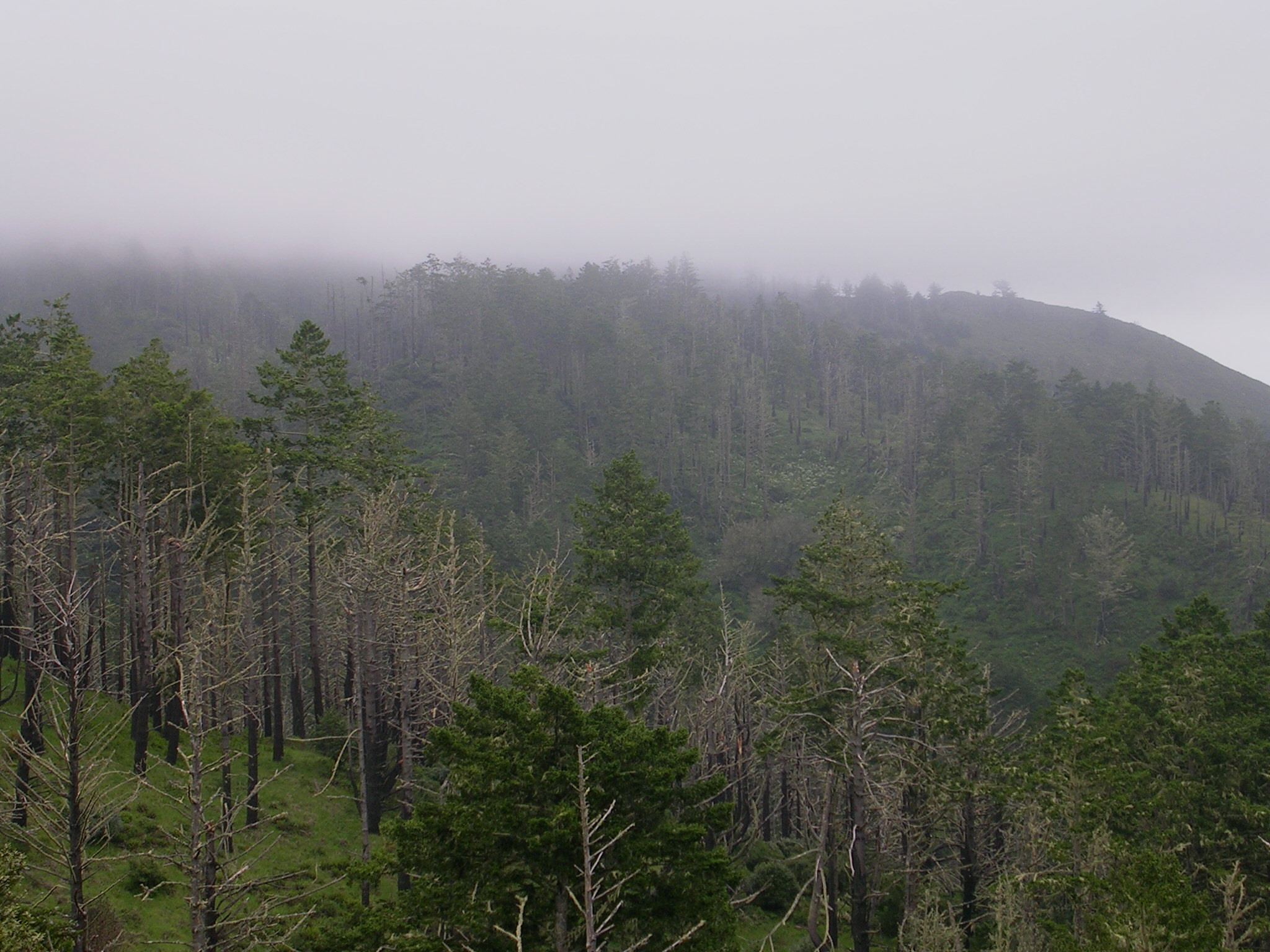 Point Reyes National Seashore, in California. A forest burned by the Vision Fire in 1995 slopes down to Drakes Bay.